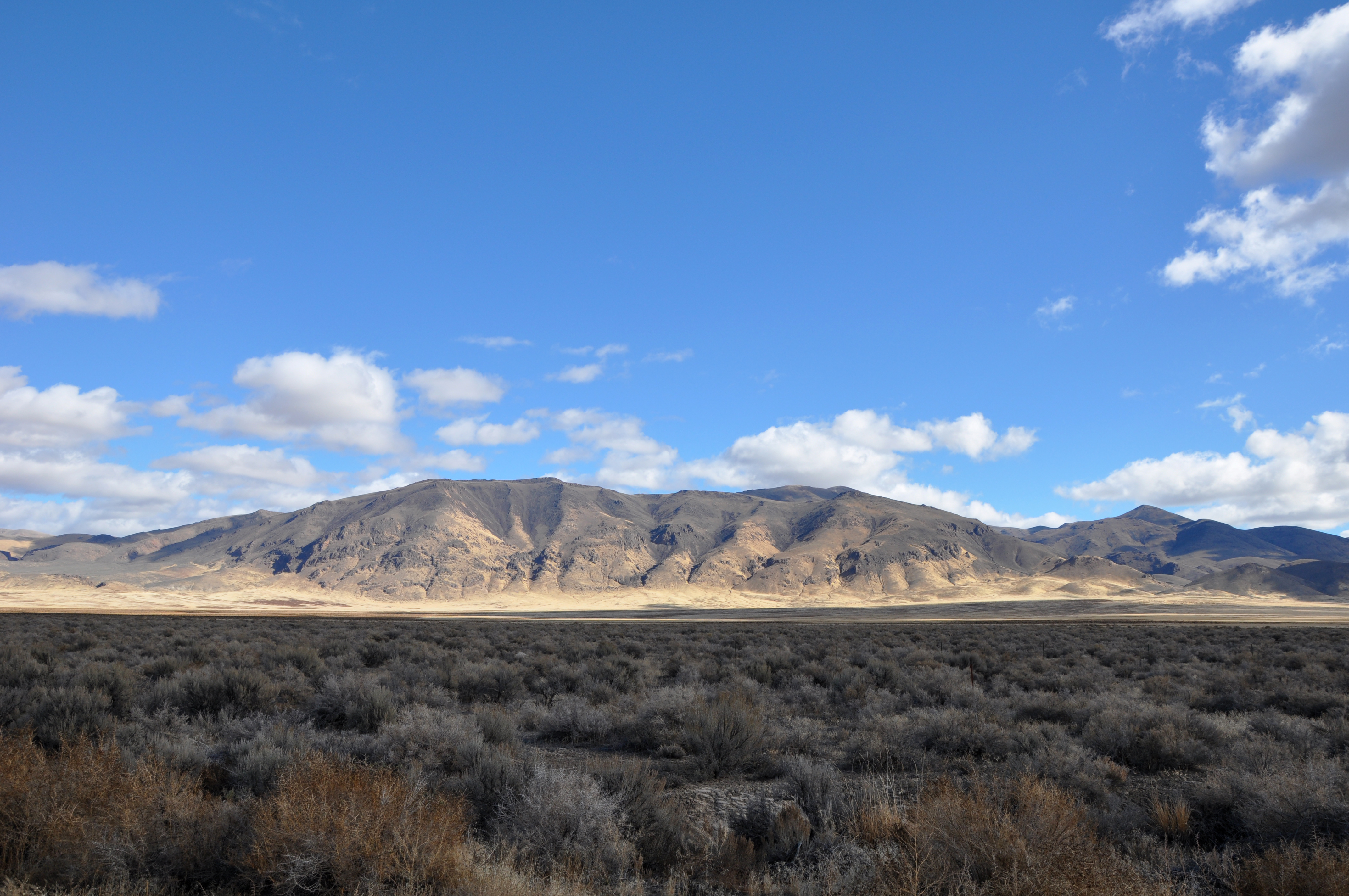 Part of the Shoshone Range in north-central Nevada. View is to the east from Nevada State Route 305 south of Battle Mountain, Nevada, United States.